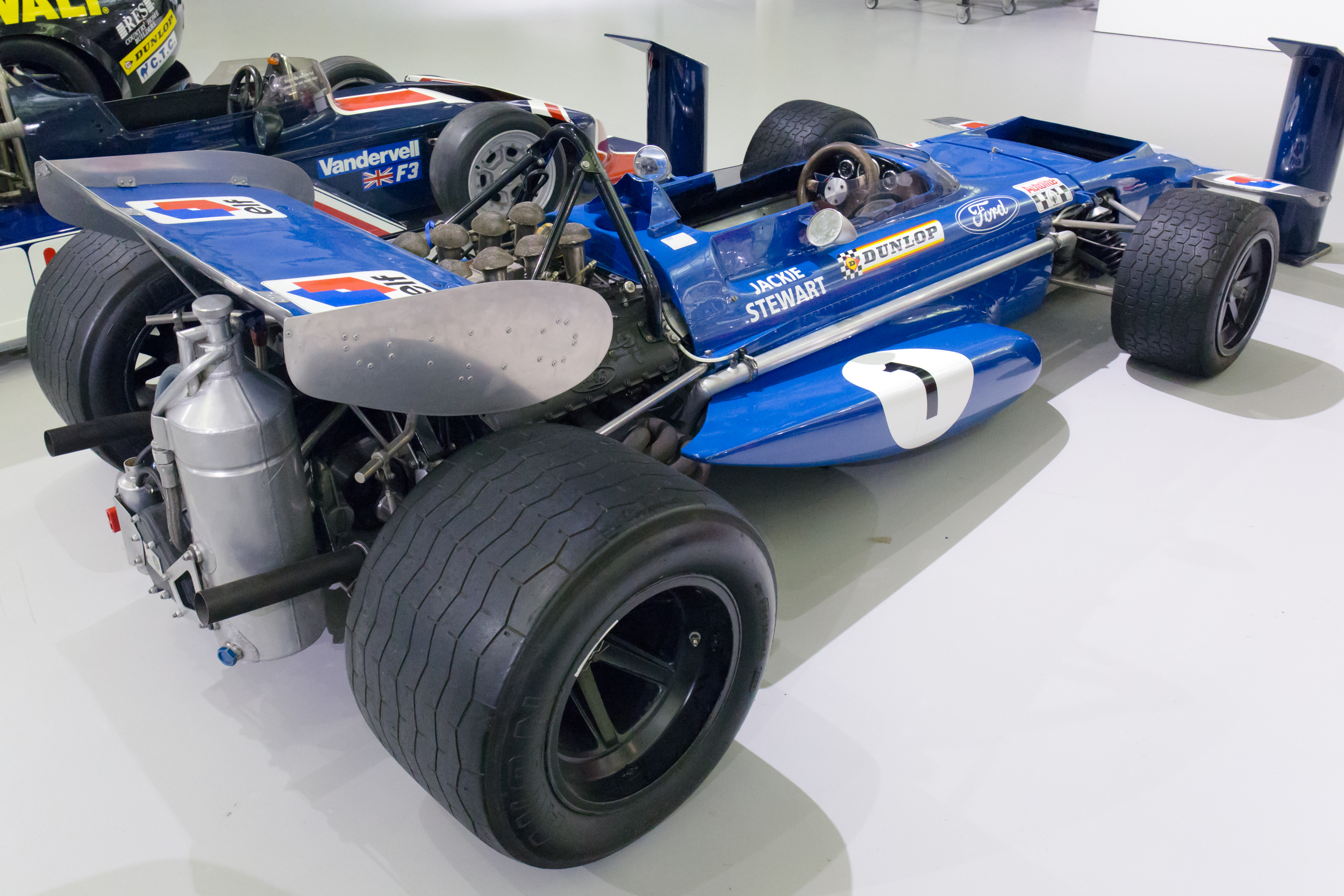 1970 March 701 of Tyrrell Racing